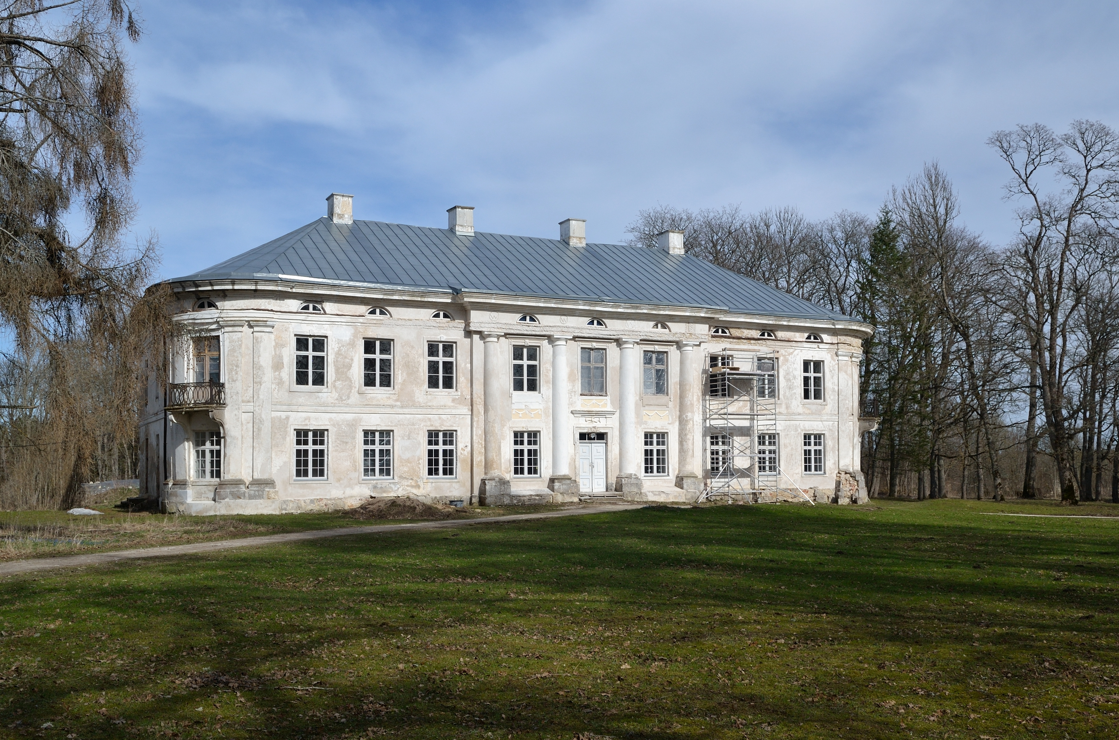 Varangu manor main building